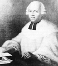 Abbé Jean-François Georgel (1731-1813) french diplomat